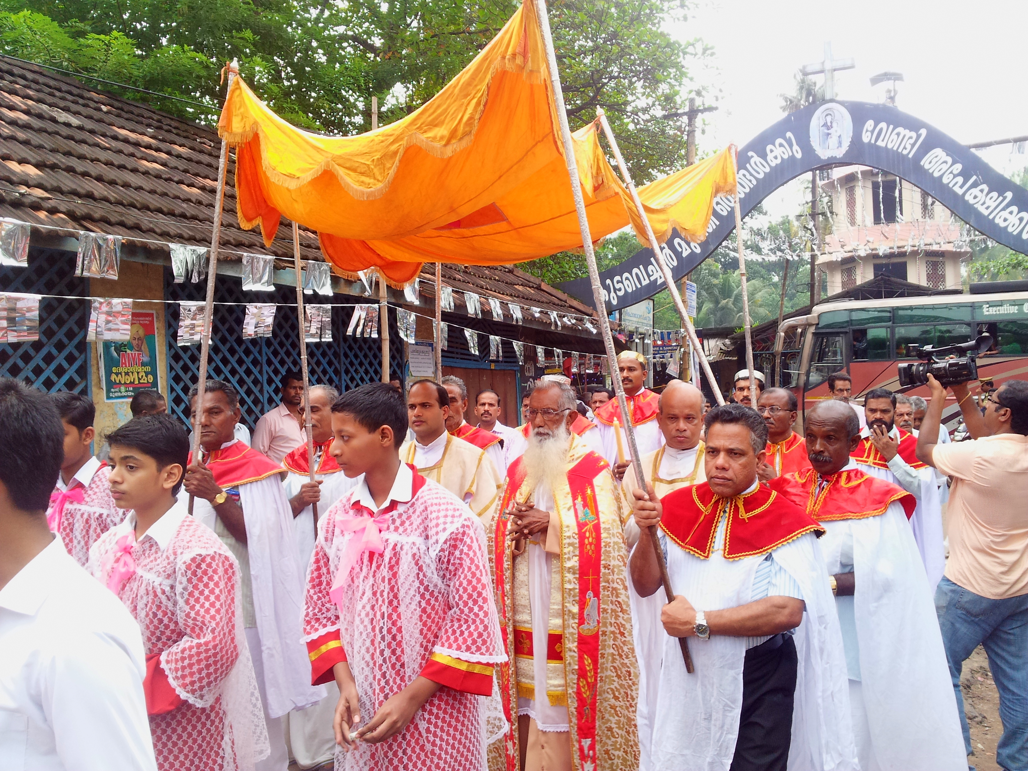 Vechoor Church, Vechoor Muthi, St. Marys Church